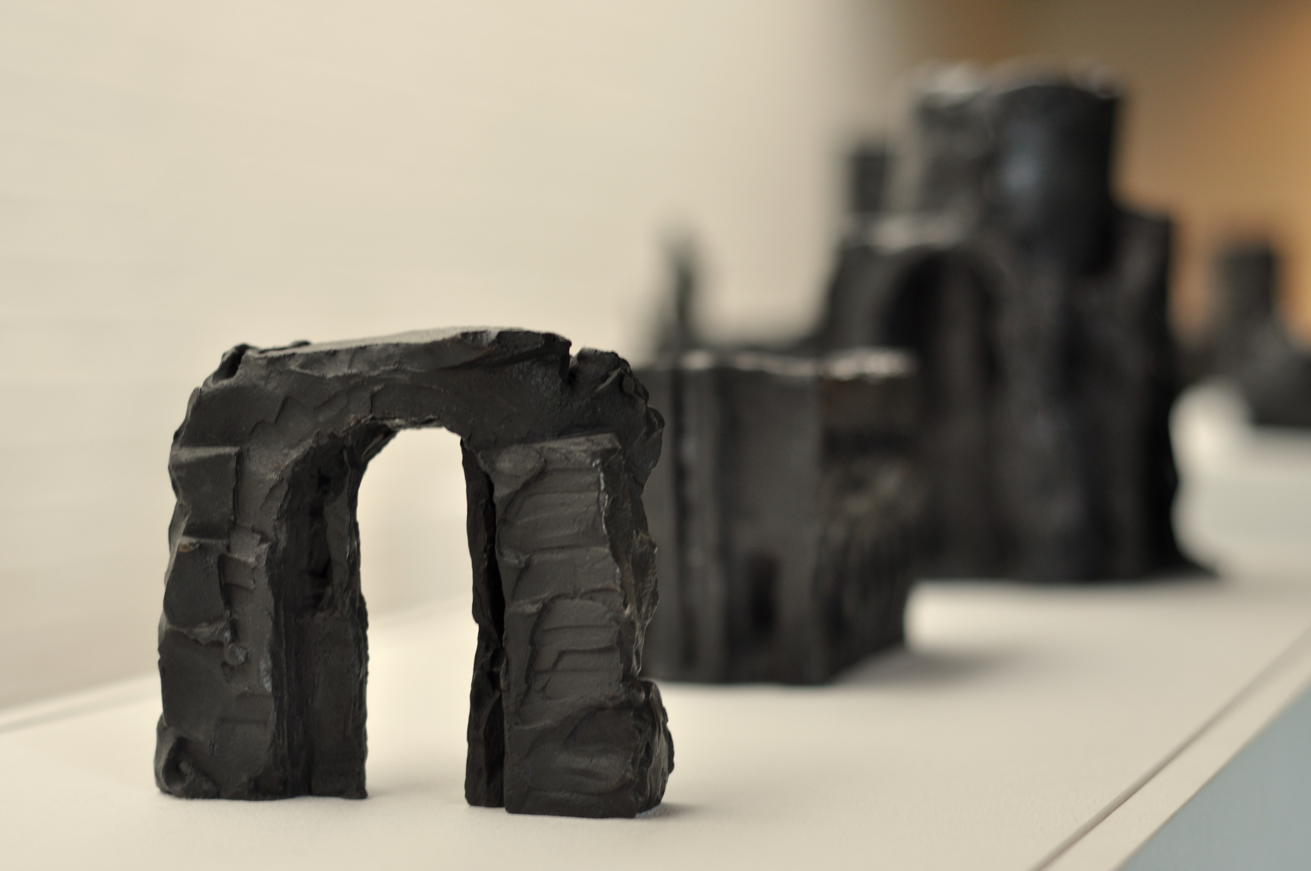 Lousiana Art Museum, Humlebaek, DenmarkThe Louisiana Museum of Modern Art is an art museum located directly on the shore of the Øresund Sound in Humlebæk, 35 km (22 mi) north of Copenhagen, Denmark. It is the most visited art museum in Denmark[2] with an e